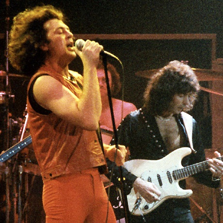 Deep Purple (1985). It's copy for Template-Userbox